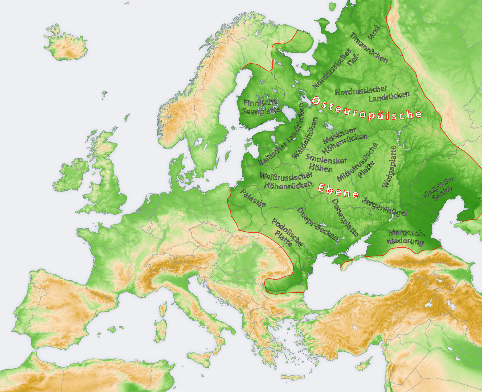 Map of the landscapes of the East European Plain